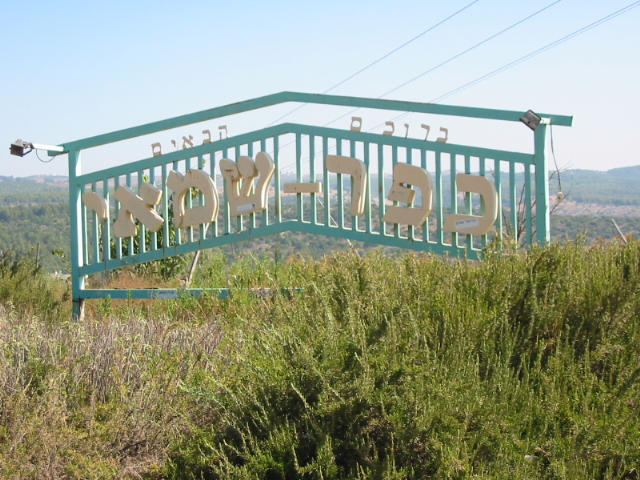 Sign at entrance to the moshav